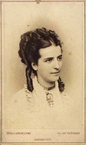 Amalie Skram (1846-1905), Norwegian-Danish writer.